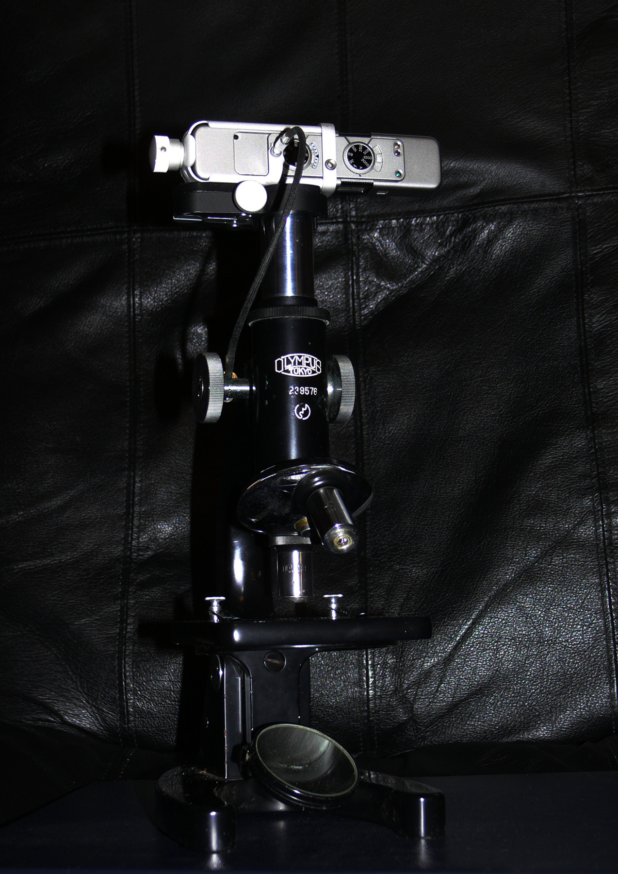 Microphotography with Minox TLX